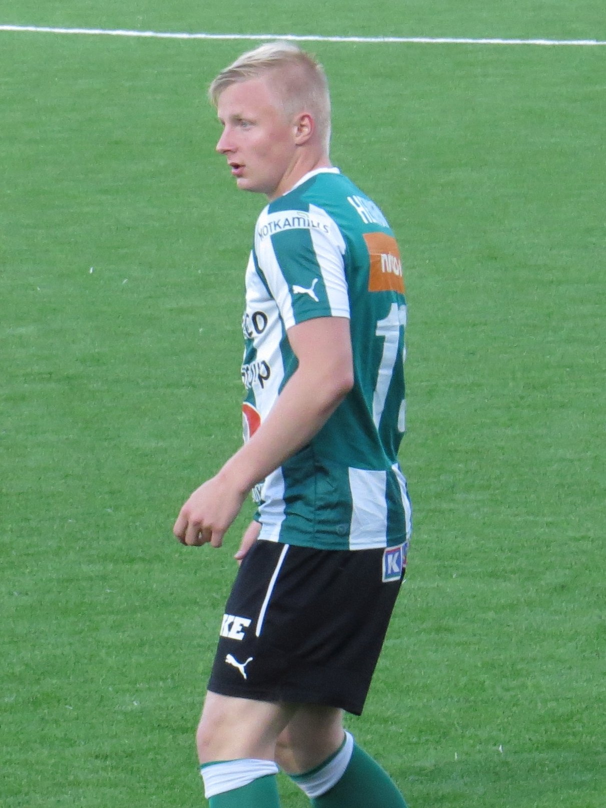 Marcus Heimonen, suomalainen jalkapalloilija FC KTP:n joukkueessa kaudella 2015.